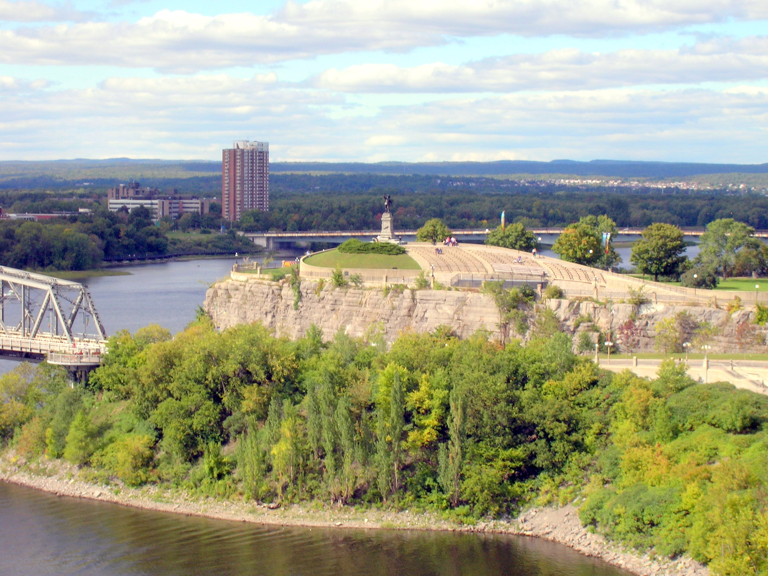 Nepean Point in Ottawa, Canada, as seen from Parliament Hill.